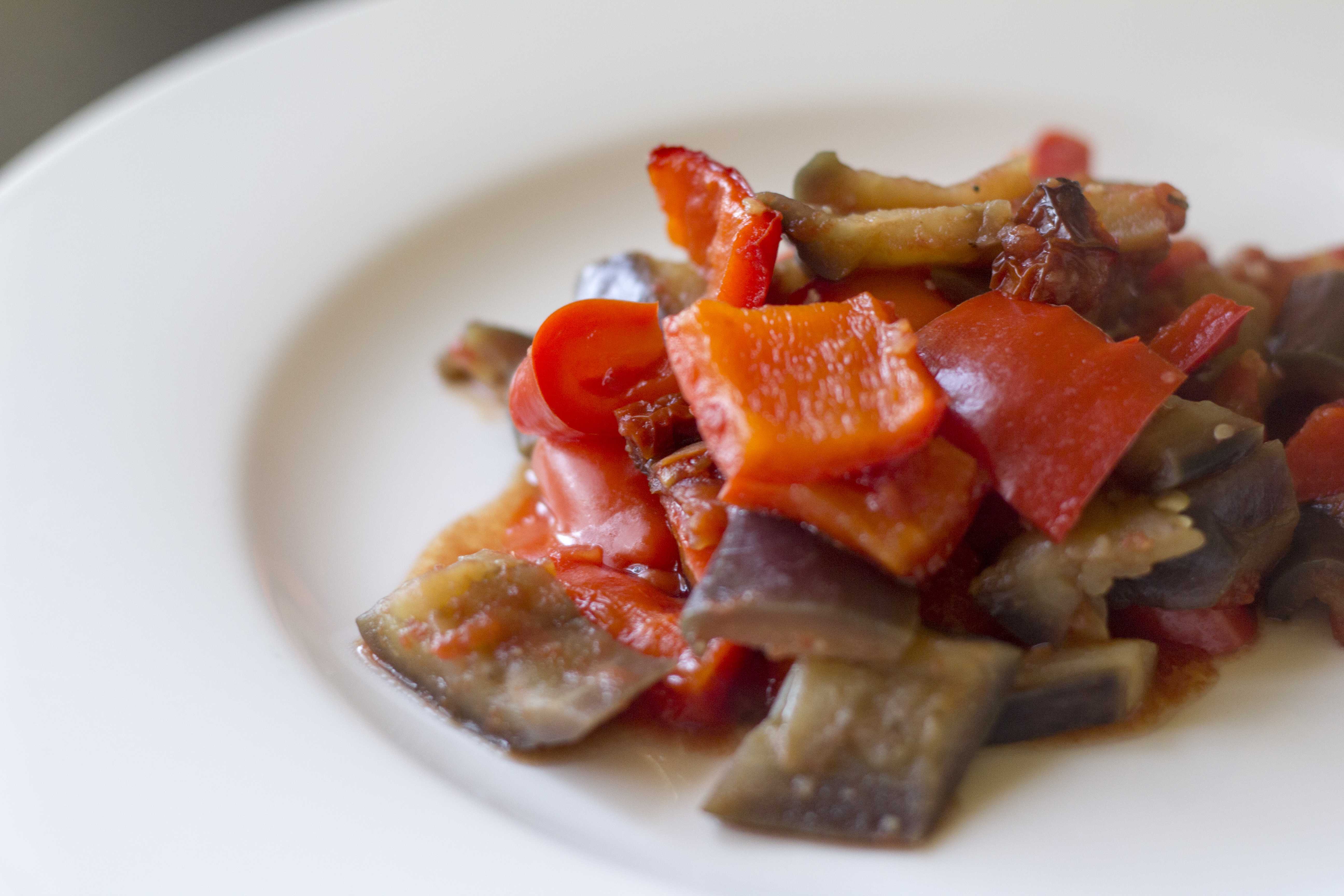 Caponata con peperoni (Recipe in italian with translation available: Mangia con Me )